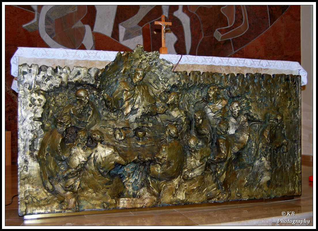 St. Elijah church in Masna Luka